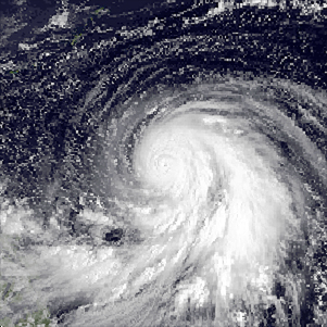 Super Typhoon Forrest on September 23, 1983. At the time Forrest had winds of 144.8 knts (166.6 mph, 268.3 kph), 1-min sustained and a pressure of 885 mbar. Forrest was about 645 miles away from land and 122 hours away from landfall. This image was taken by the GMS-2 Satellite.